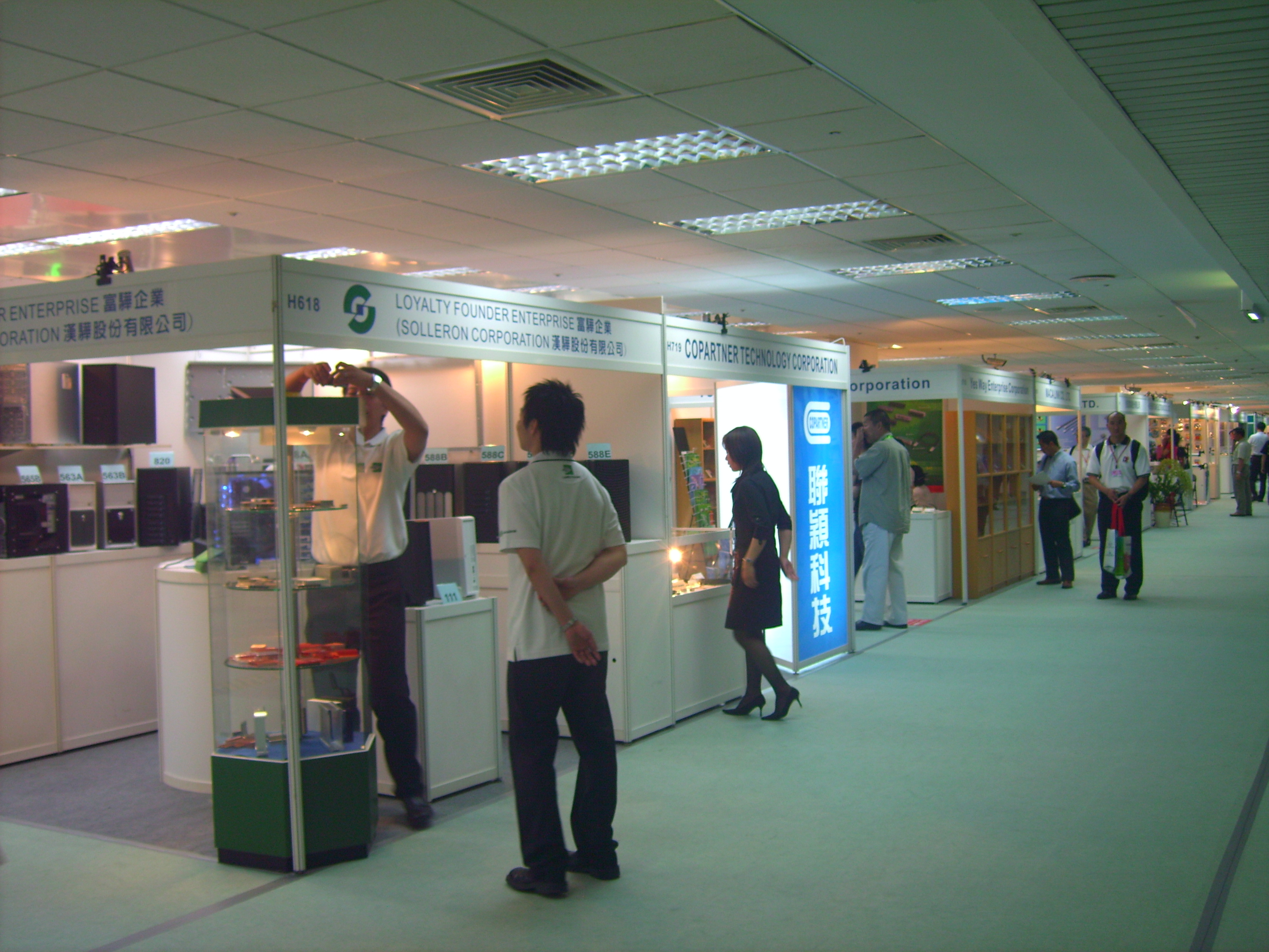 2007 COMPUTEX Taipei: A corridor of Hall 1 2F H Area.